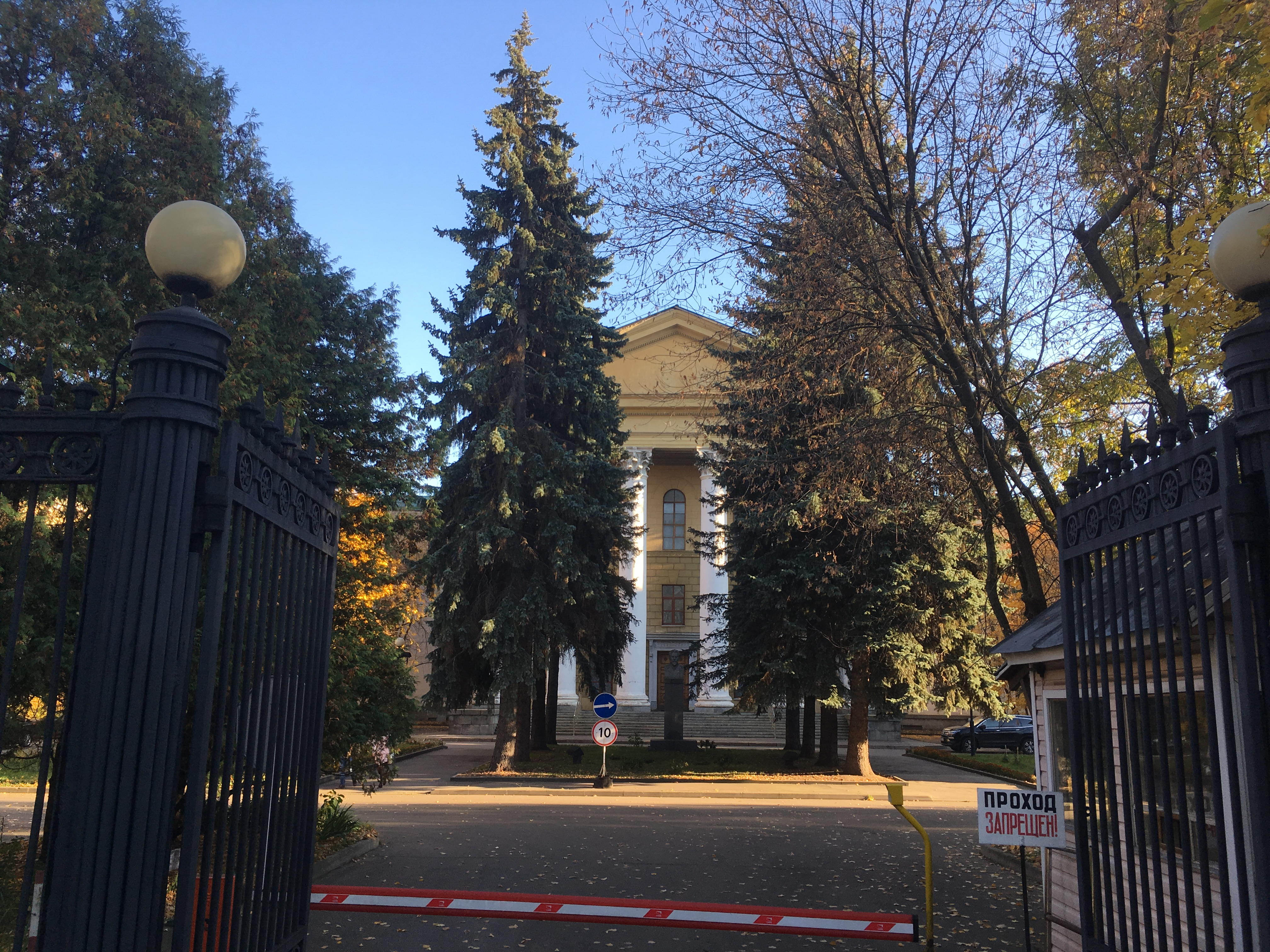 Lebedev Physical Institute